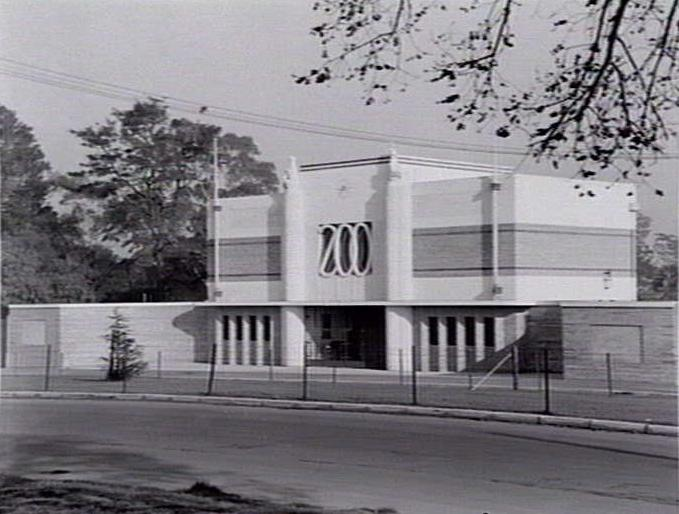 Melbourne Zoo main entrance, 1940